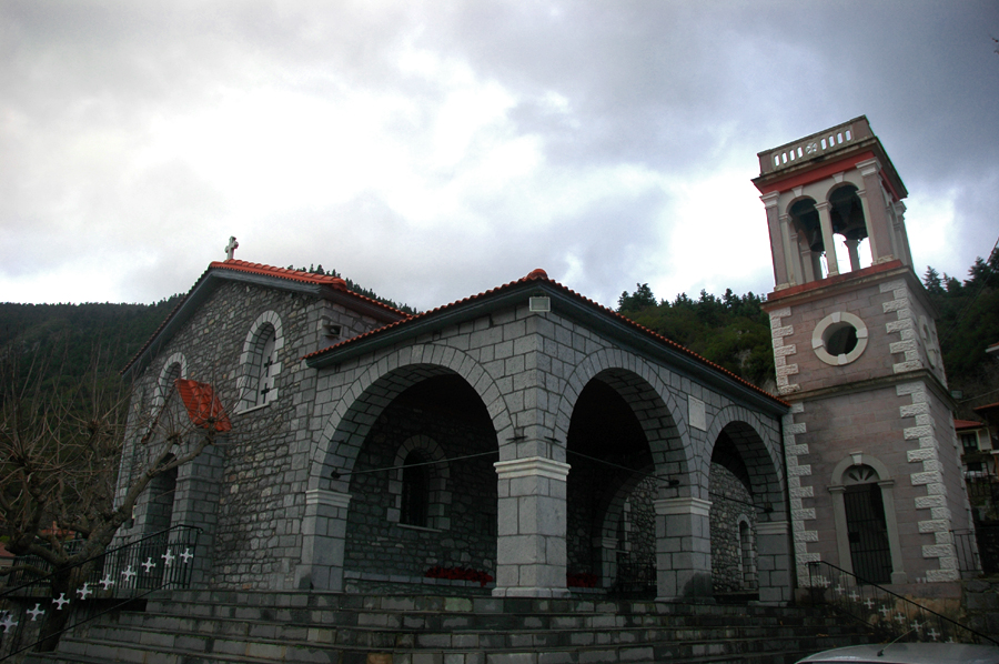 The church of Aghia Paraskevi in Alonistena, Greece